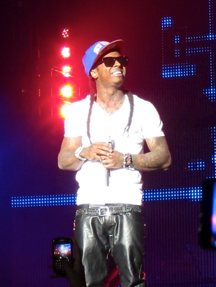 Lil Wayne in concert in Long Island, NY